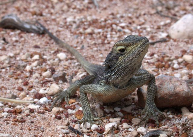 This is photograph of an Abrolhos Dwarf Bearded Dragon (Pogona minor minima) on West Wallabi Island in the Houtman Abrolhos.